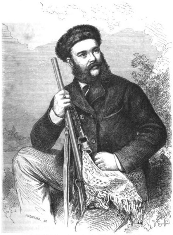 Theodor von Heuglin.